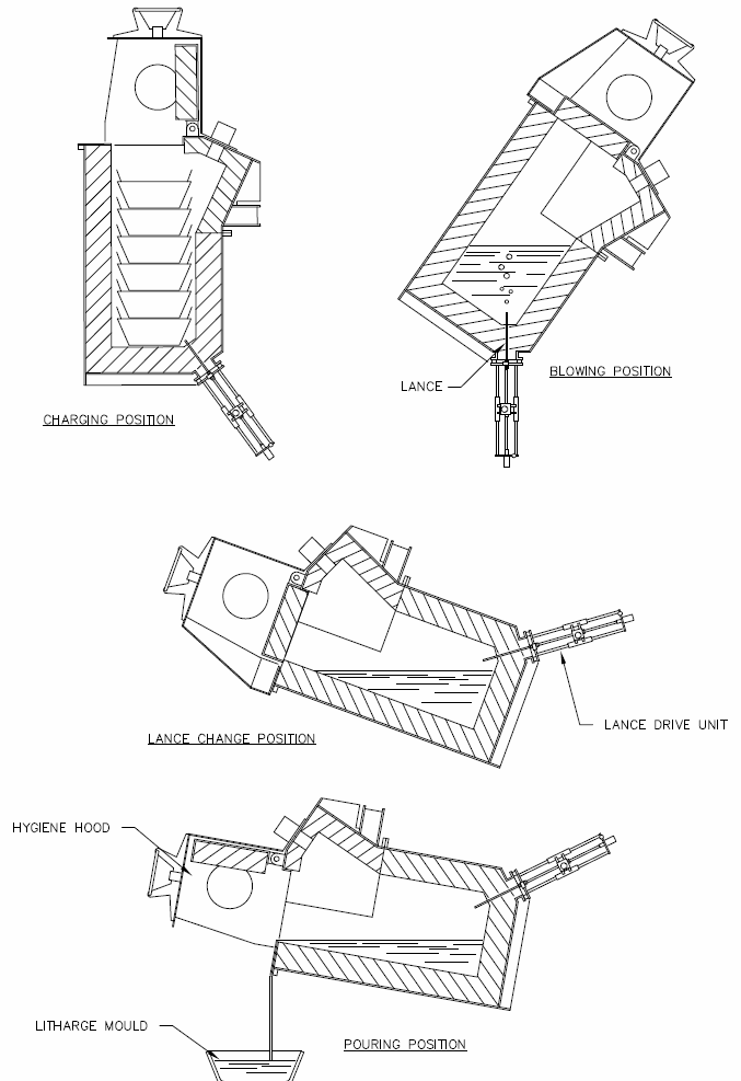 This drawing is a vertical representation of the operating positions of the bottom-blown oxygen converter. The horizontal representation is BBOC operating positions, but it is no good for illustrative purposes.